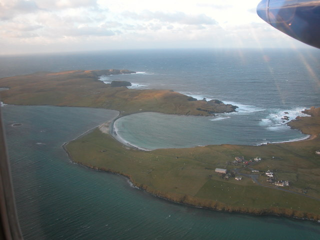 Aerial view of the South of West Burra with Duncanslett village, Banna Minn bay and isthmus, Shetland, Scotland